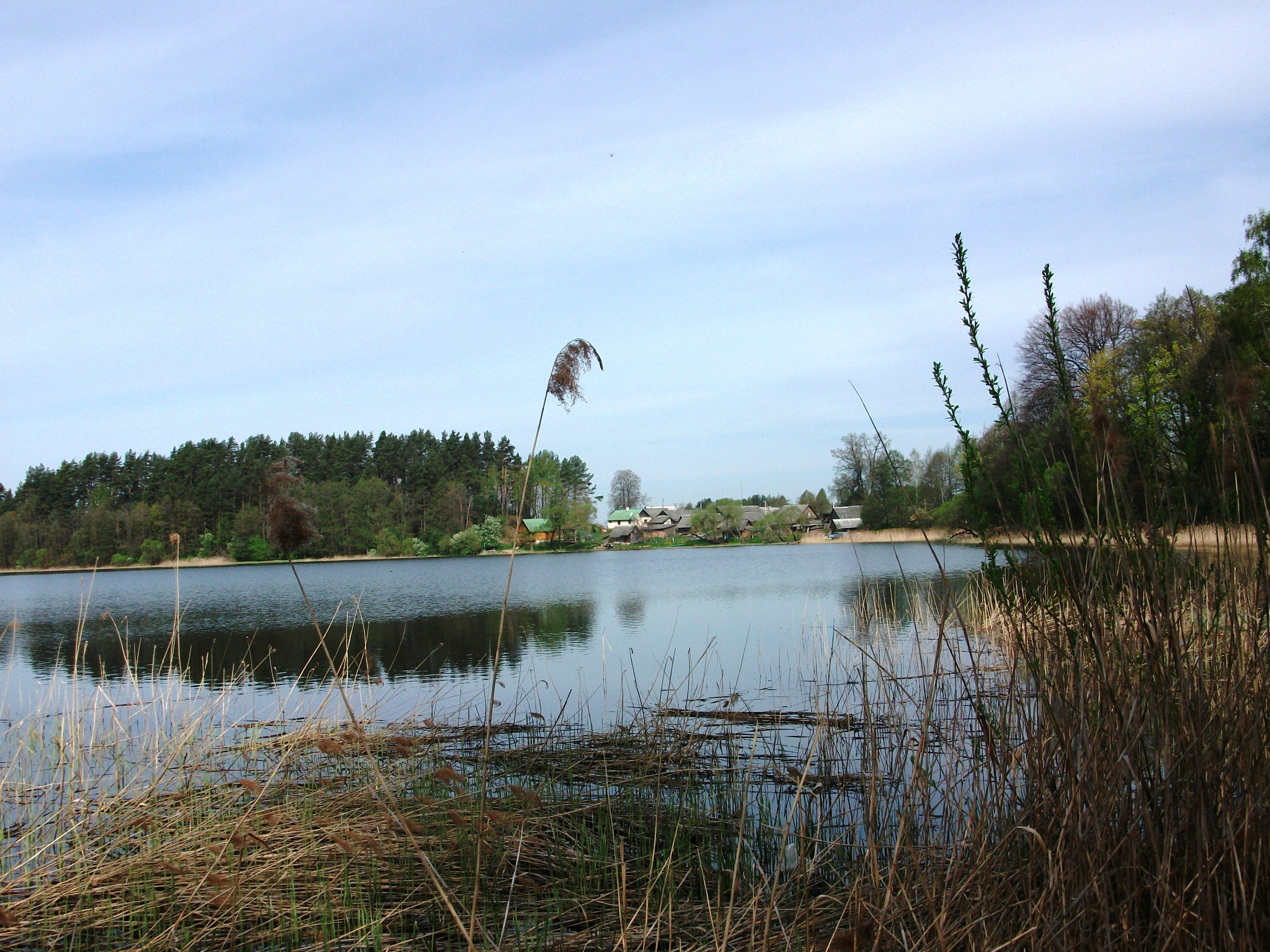 Tumskayе Lake, Astraviec district, Belarus